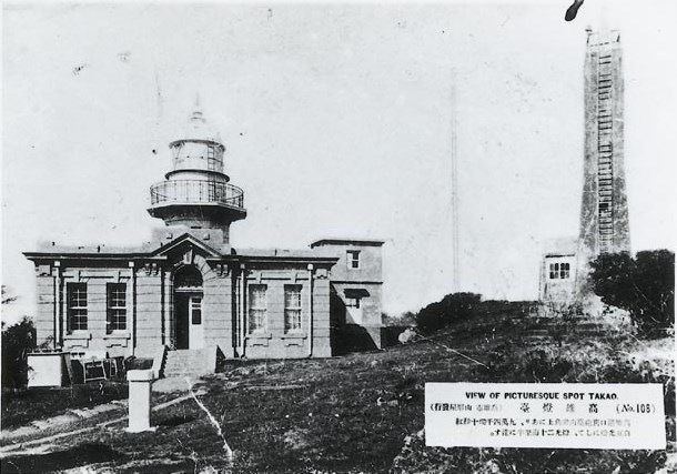 date of shot is very likely before 1945